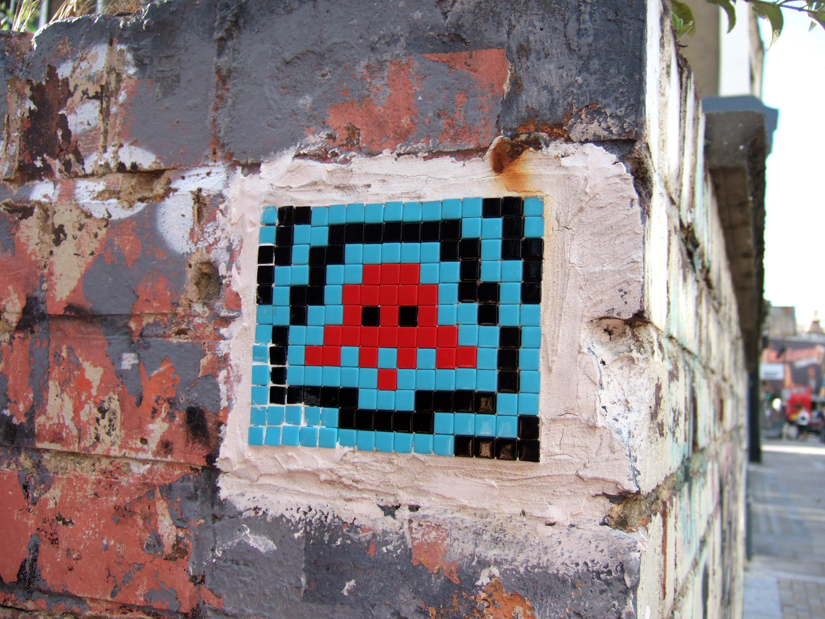 Space Invader titles in Shoreditch.